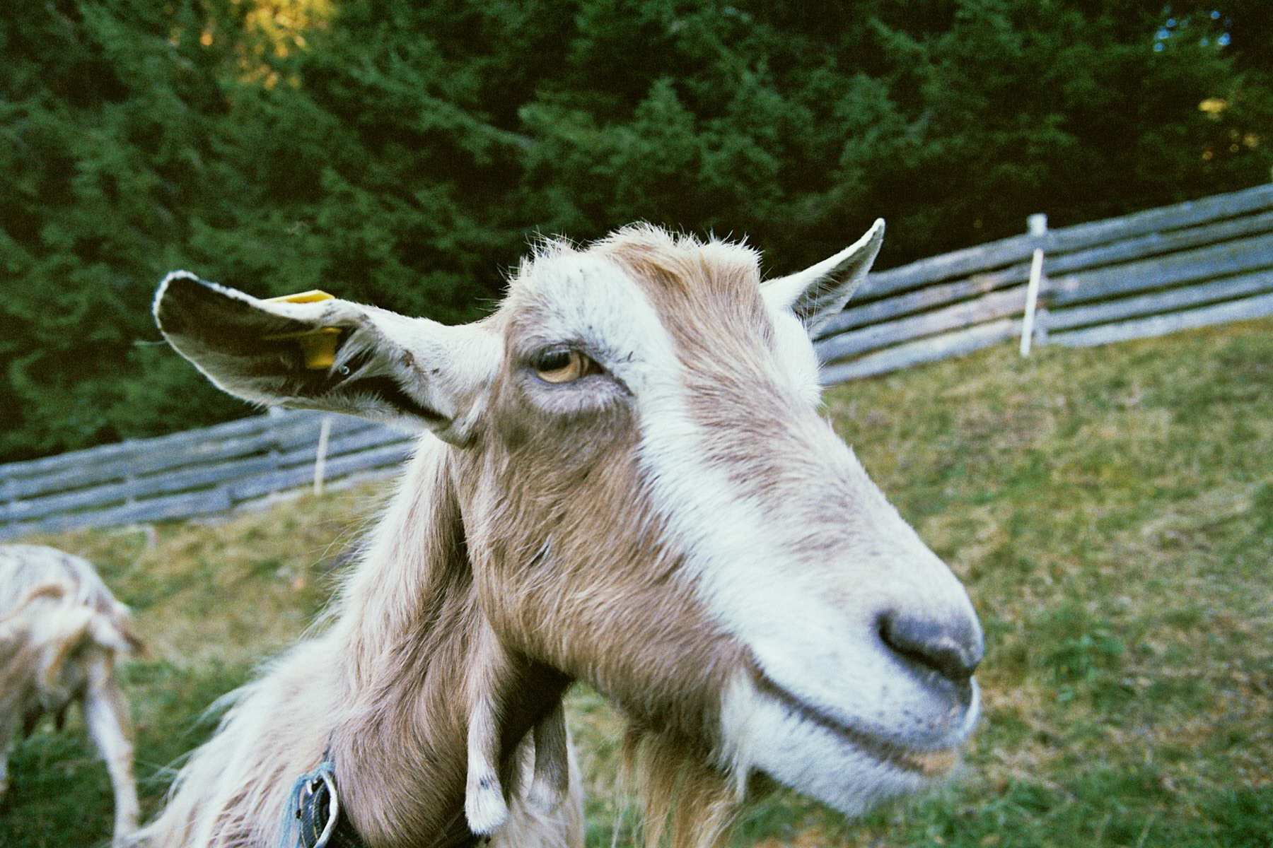 Toggenburger